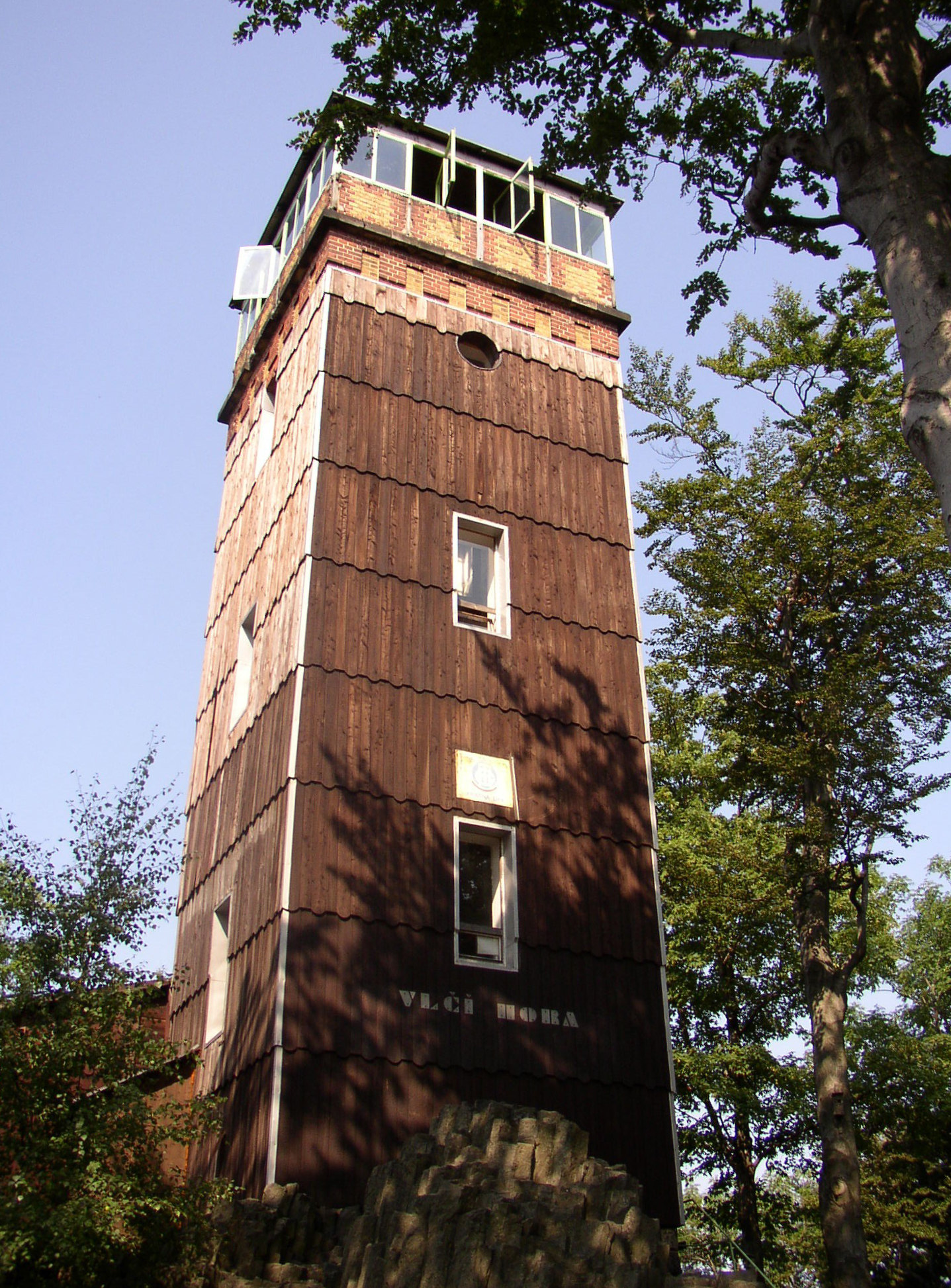 Watch tower on the Vlčí hora.